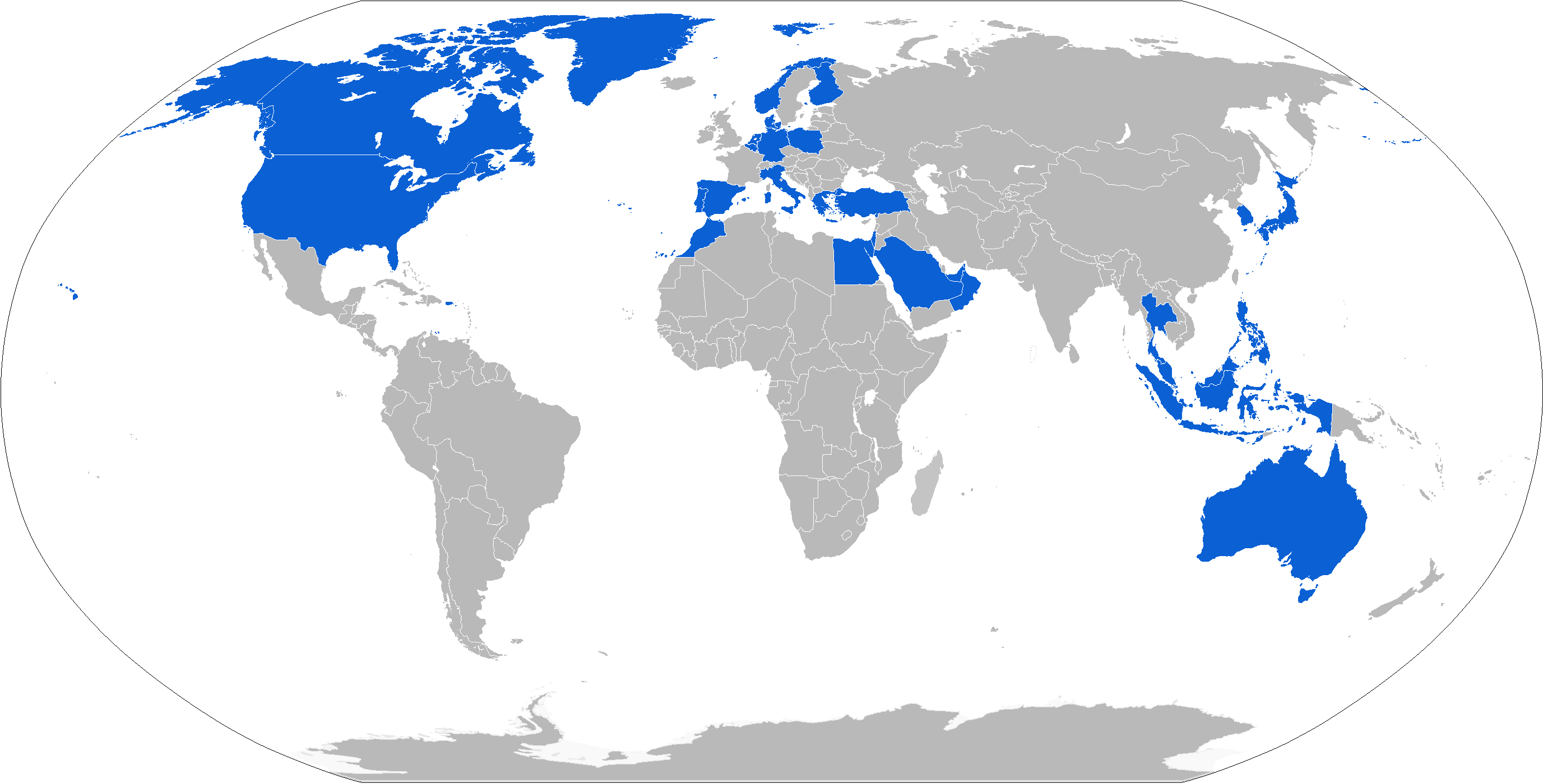 Map with JDAM operators in blue